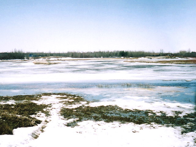 View of Poplar River during ice melt. Picture taken by Mr. Leslie D. Bruce.